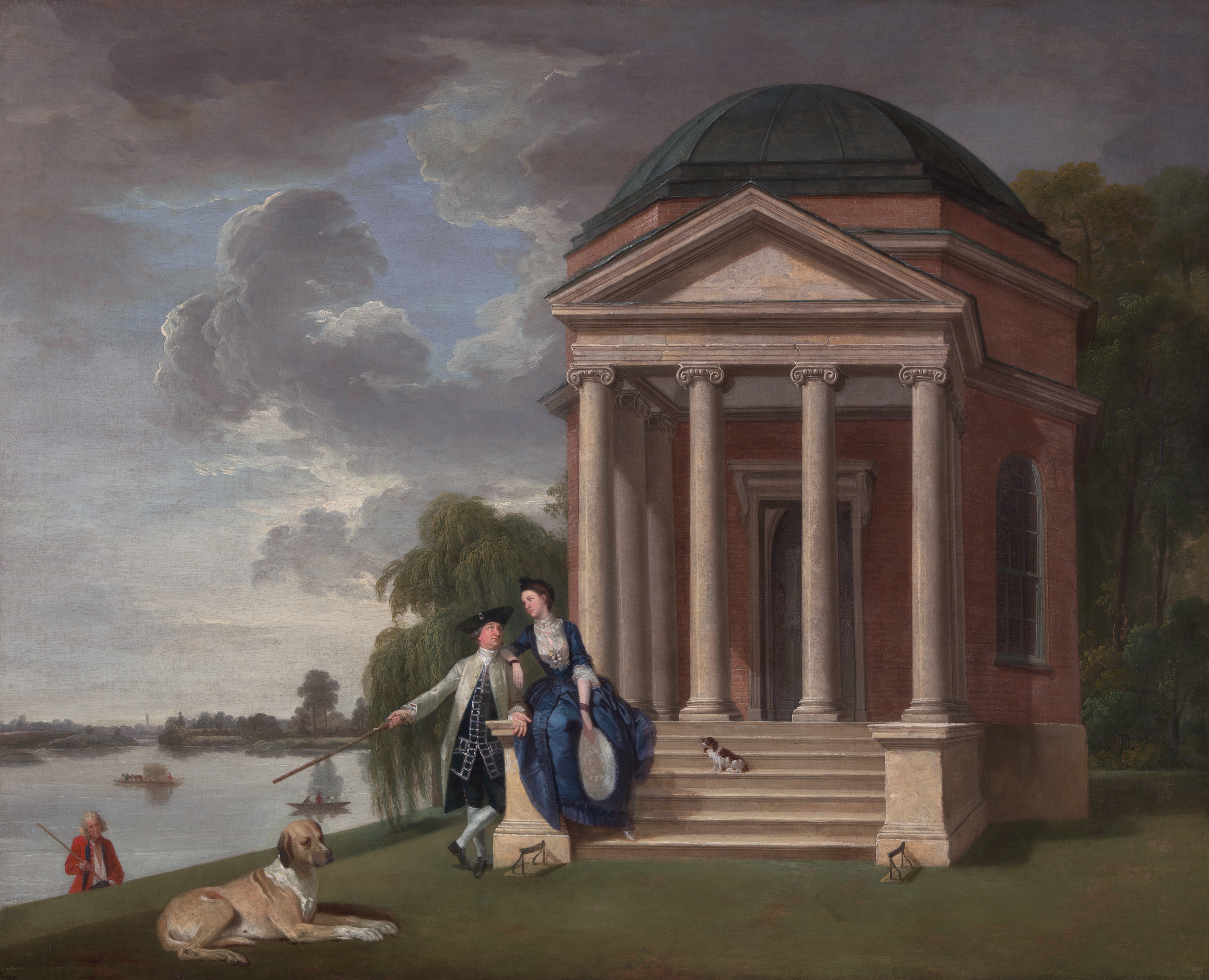 David Garrick (1717-79) and his Wife by his Temple to Shakespeare at Hampton, c.1762